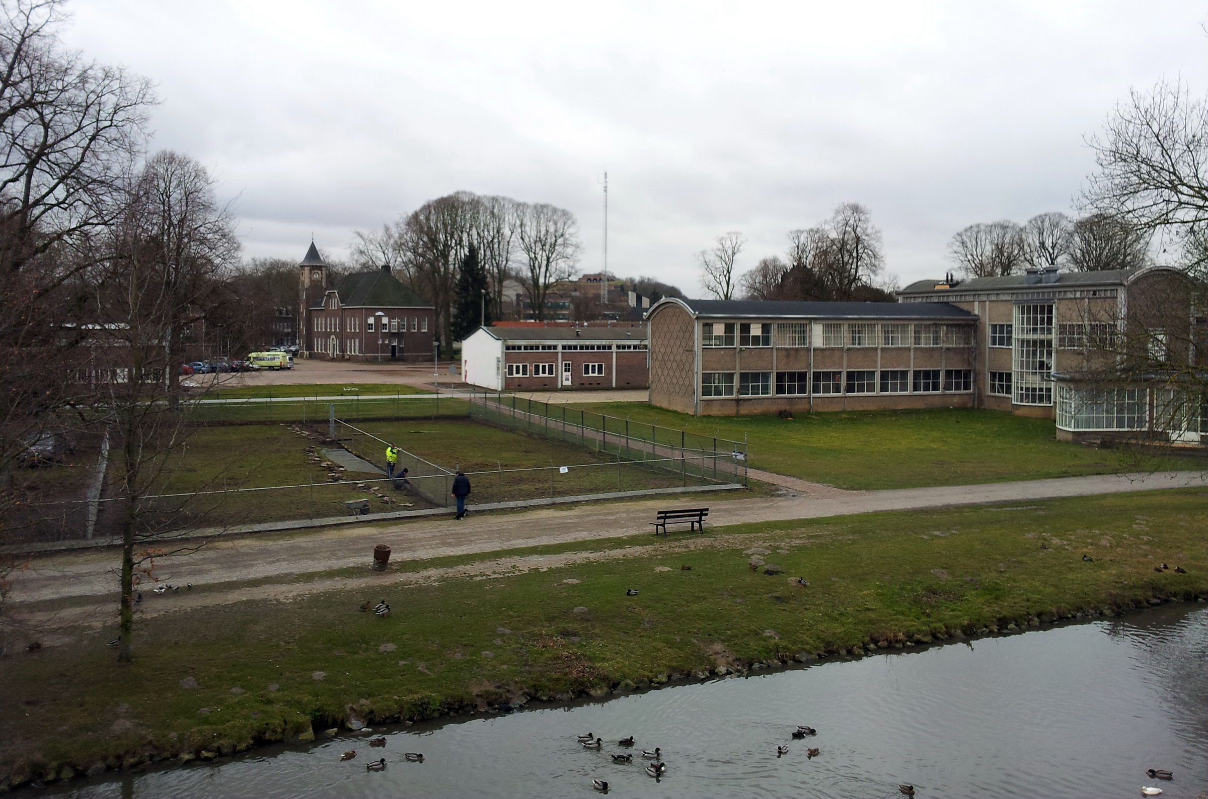 Maastricht, the Netherlands. View of the former Tapijnkazerne military barracks.